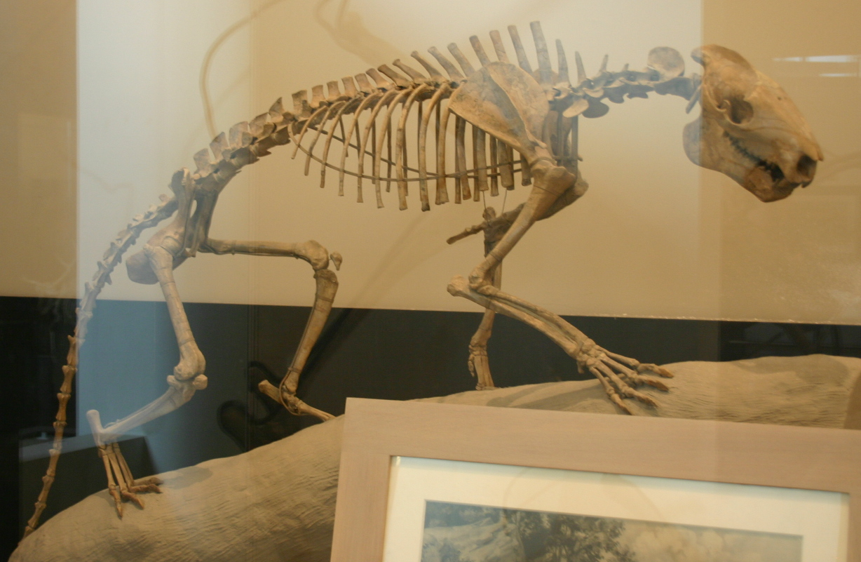 wild pig